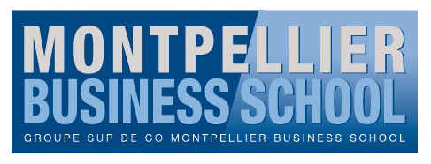 Montpellier Business School Logo